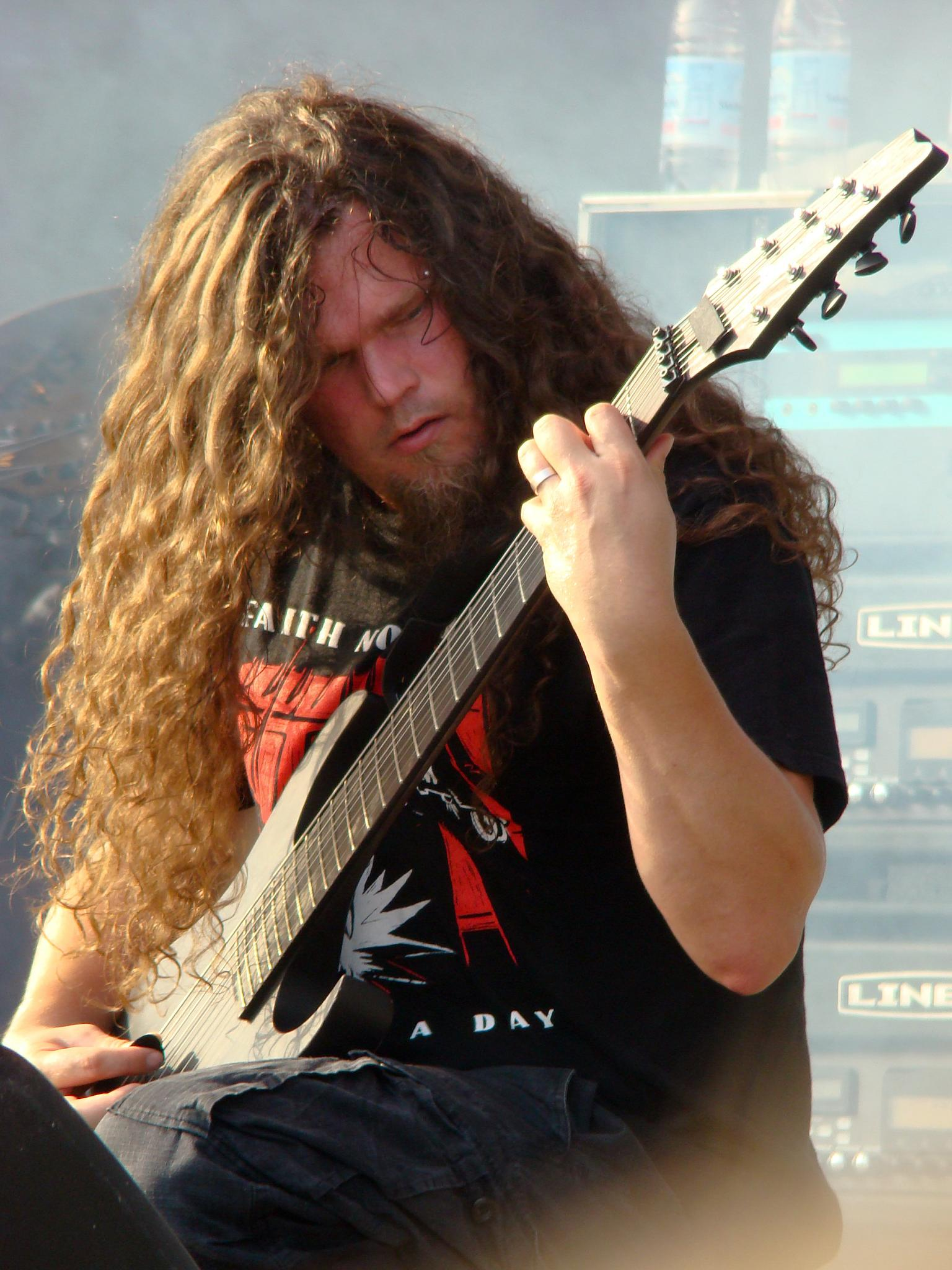 Guitarist Mårten Hagström from the Swedish band Meshuggah performing on a live show with Meshuggah in Bolzano, Italy - June 29, 2008.